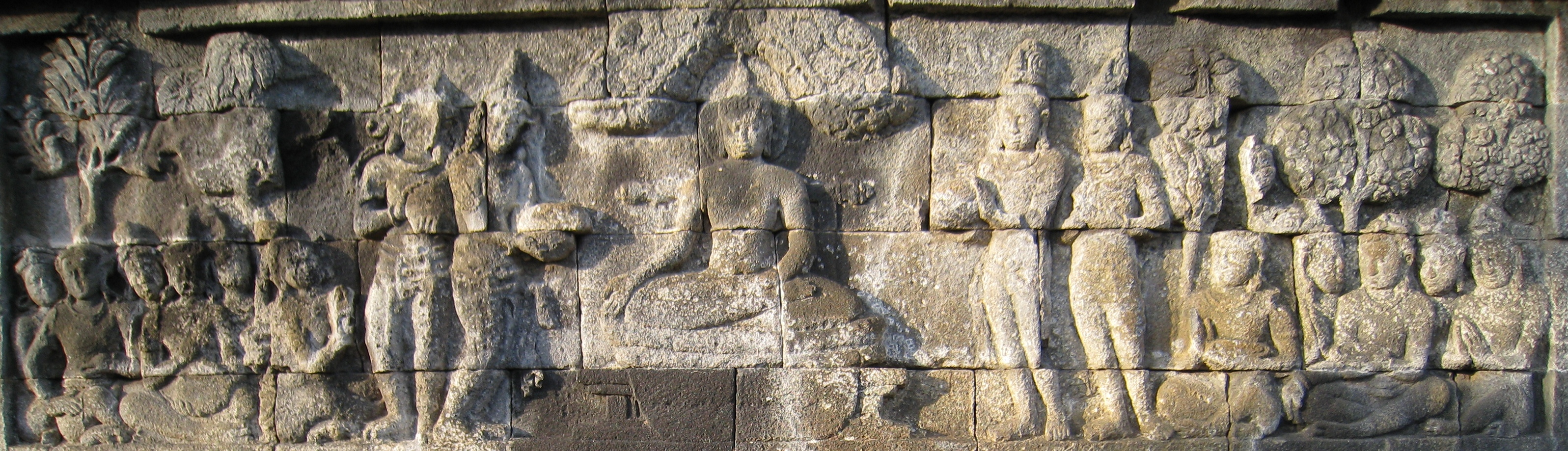 136 N-104, The Gods offer the Buddha four Bowls at Borobudur Photograph of a Lalitavistara relief at Borobudur in Java, Indonesia taken by Anandajoti.